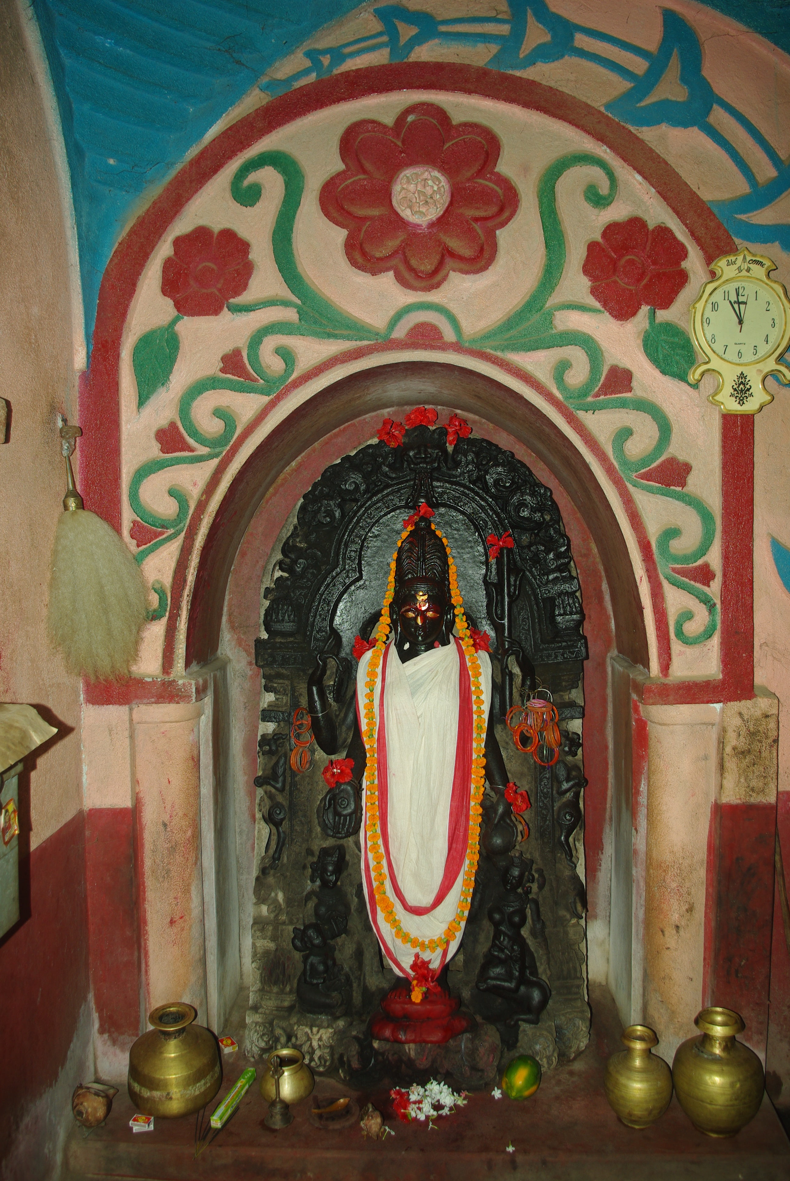 Brahmani Devi Idol, HadalNarayanpur, Bankura